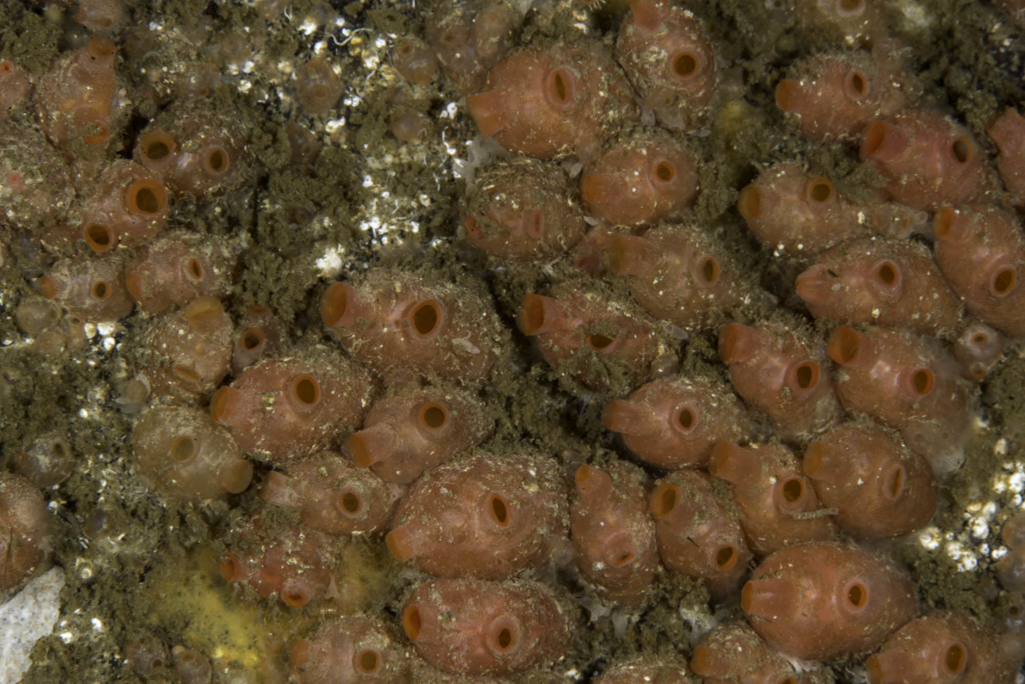 The sea squirt Dendrodoa grossularia, Isle of Man, Irish Sea.